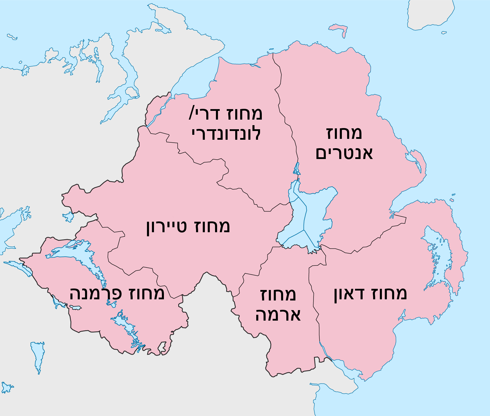 File:Northern Ireland - Counties